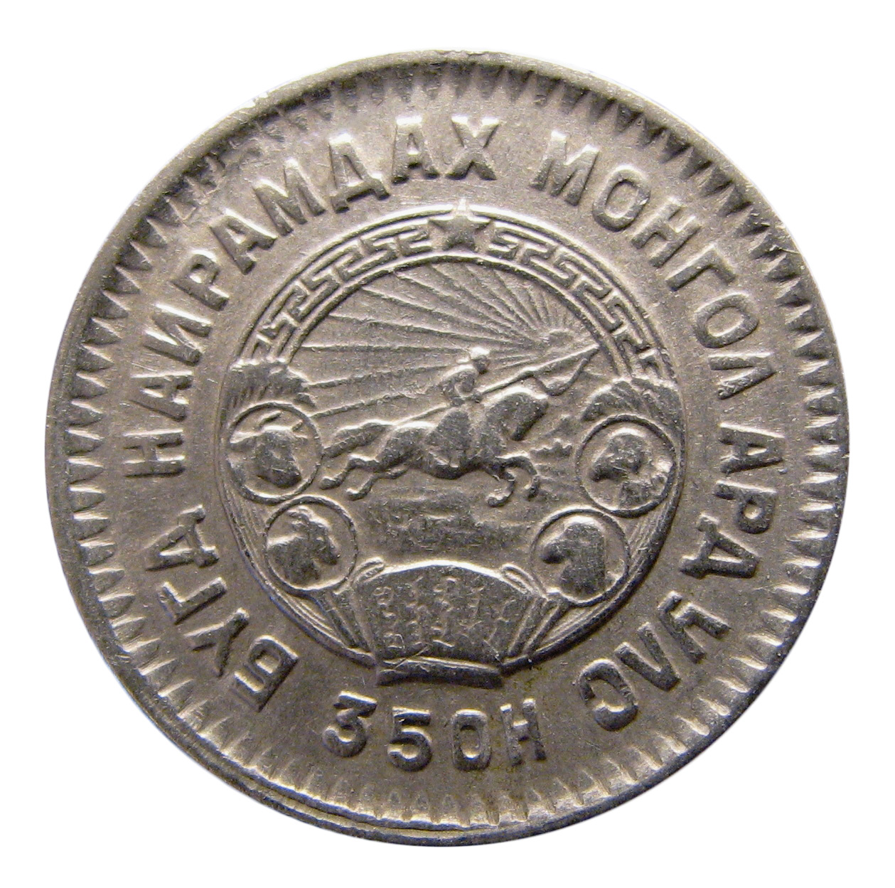 Mongolian coin 20 mungu 1945